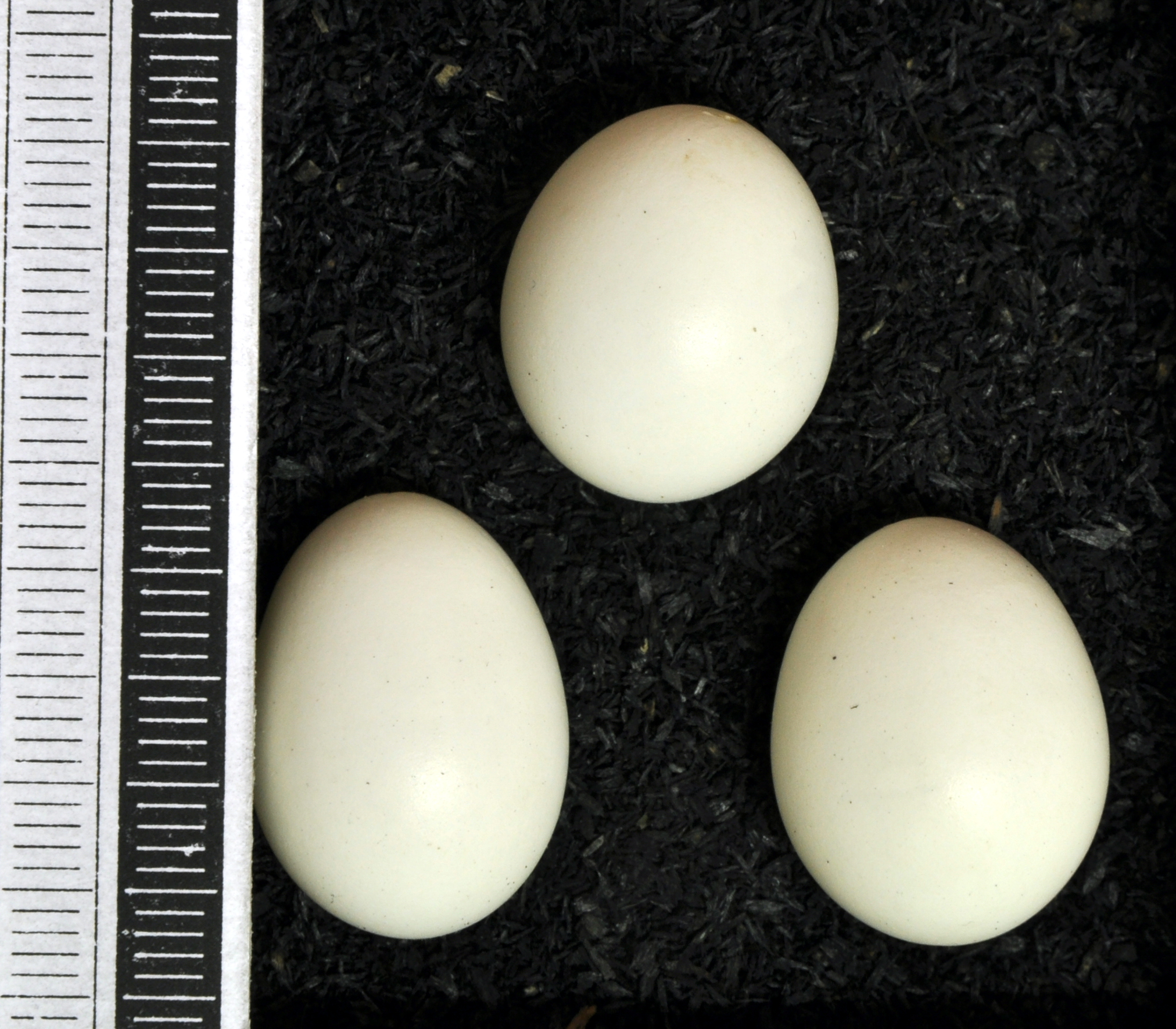 Eurasian wryneck Jynx torquilla , egg, Coll. Museum Wiesbaden